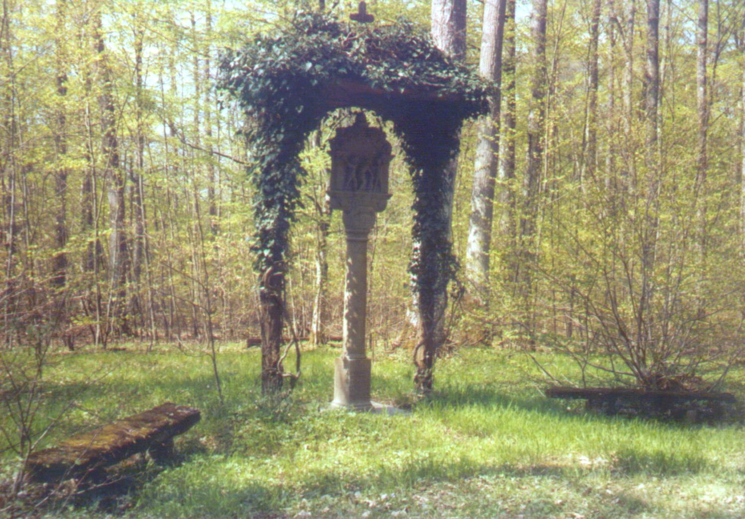 Way Side Shrine in German spa town of Bad Kissingen in Lower Franconia (Bavaria).